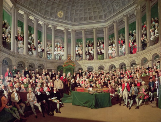 The Irish House of Commons, 1780. It shows Henry Grattan on the right addressing the house.